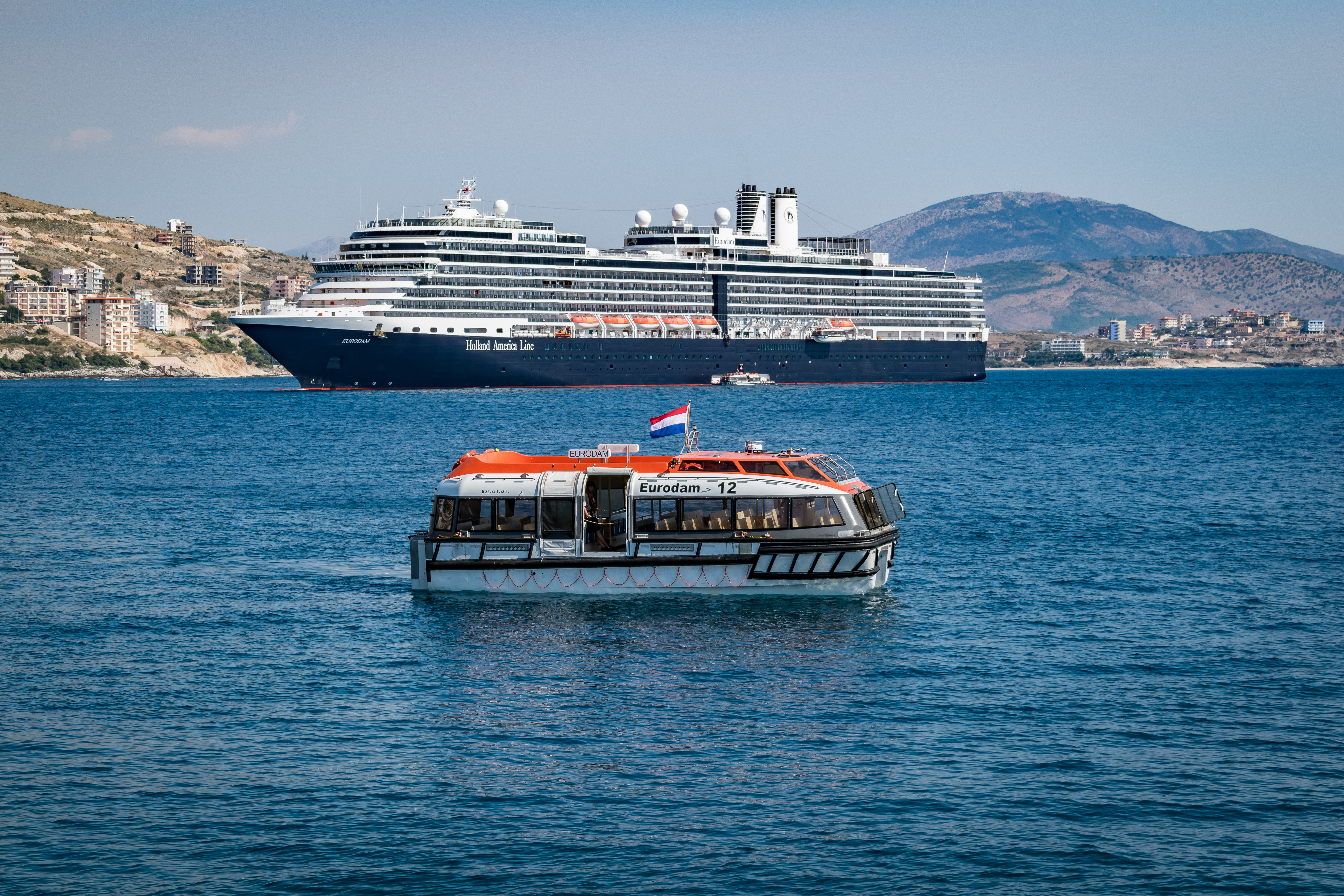 Cruise ship Eurodam invisits Saranda.